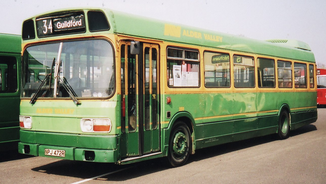 This is a picture taken on the 1st April 2007 at the Cobham Bus Rally, held that year at Longcross. It shows a preserved Leyland National, in the livery of Alder Valley